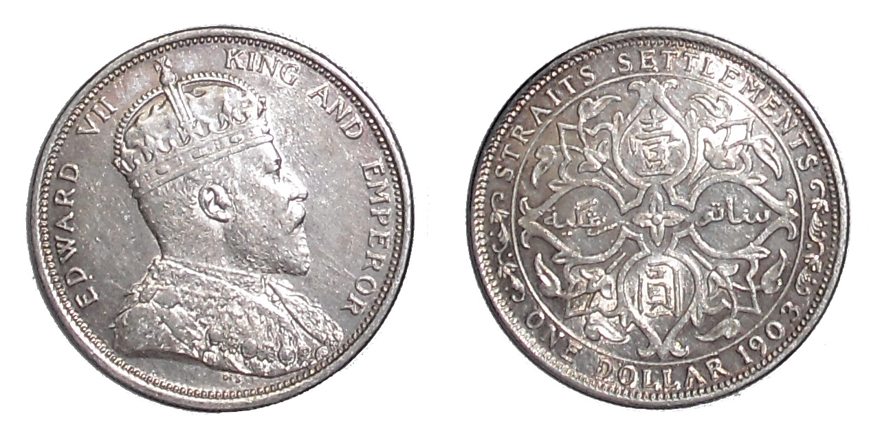 Straits settlements 1Dollar 1903